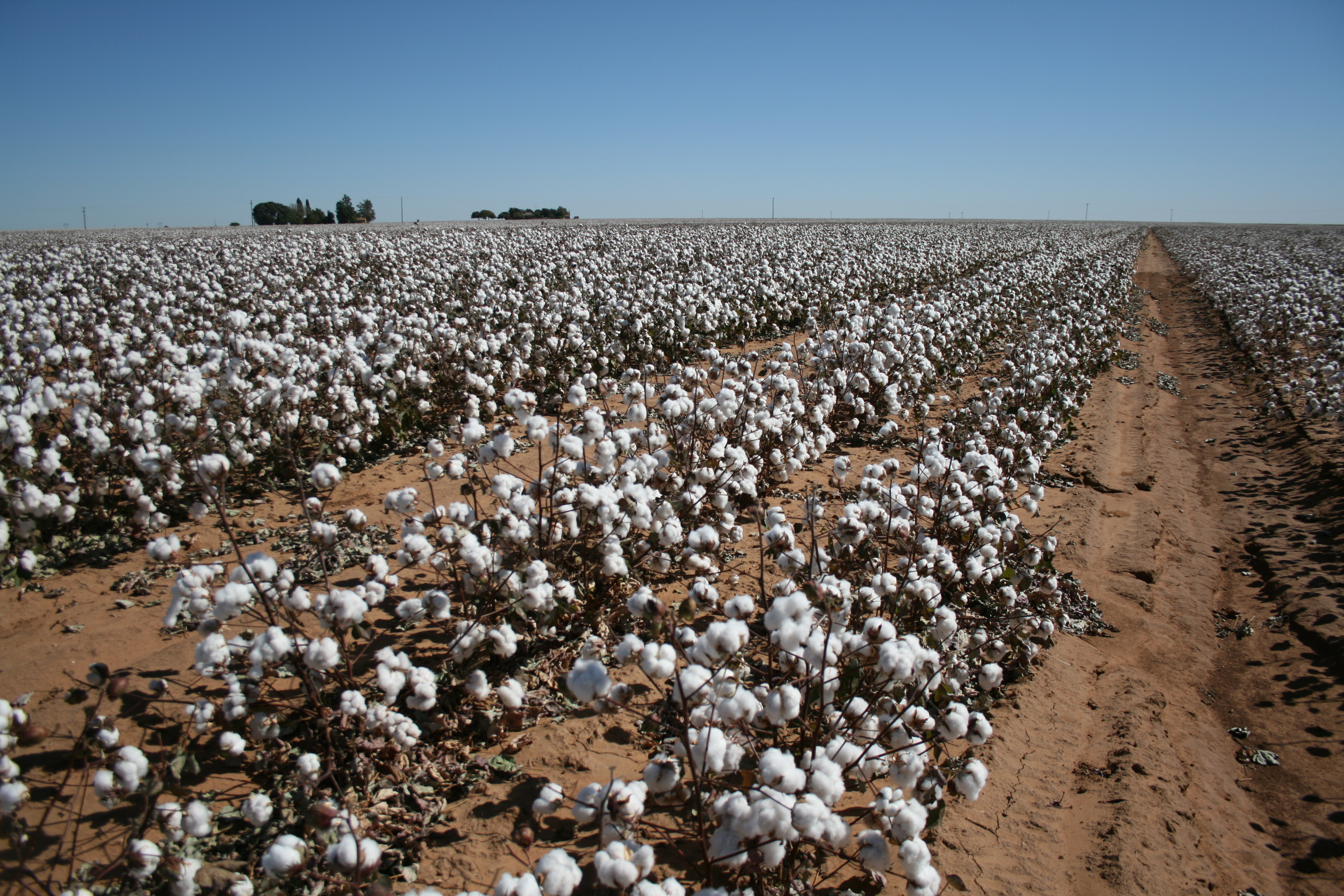 Cotton fields ready for harvest, Highway 87, south of Lubbock, Texas, USA.